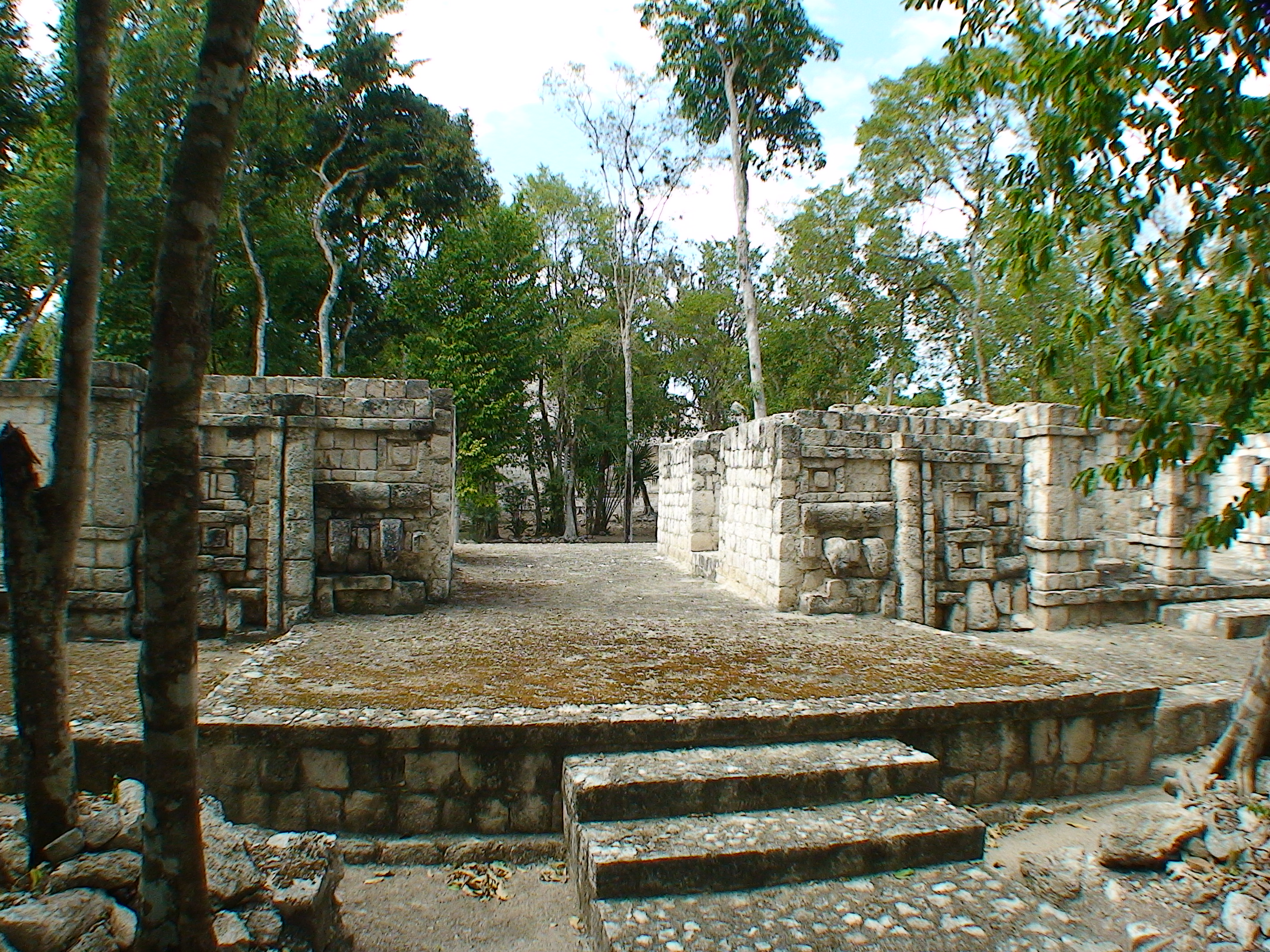 Sta. Rosa Xtampak, Campeche, Mexico: passageway with dragon mouth entrance, west side